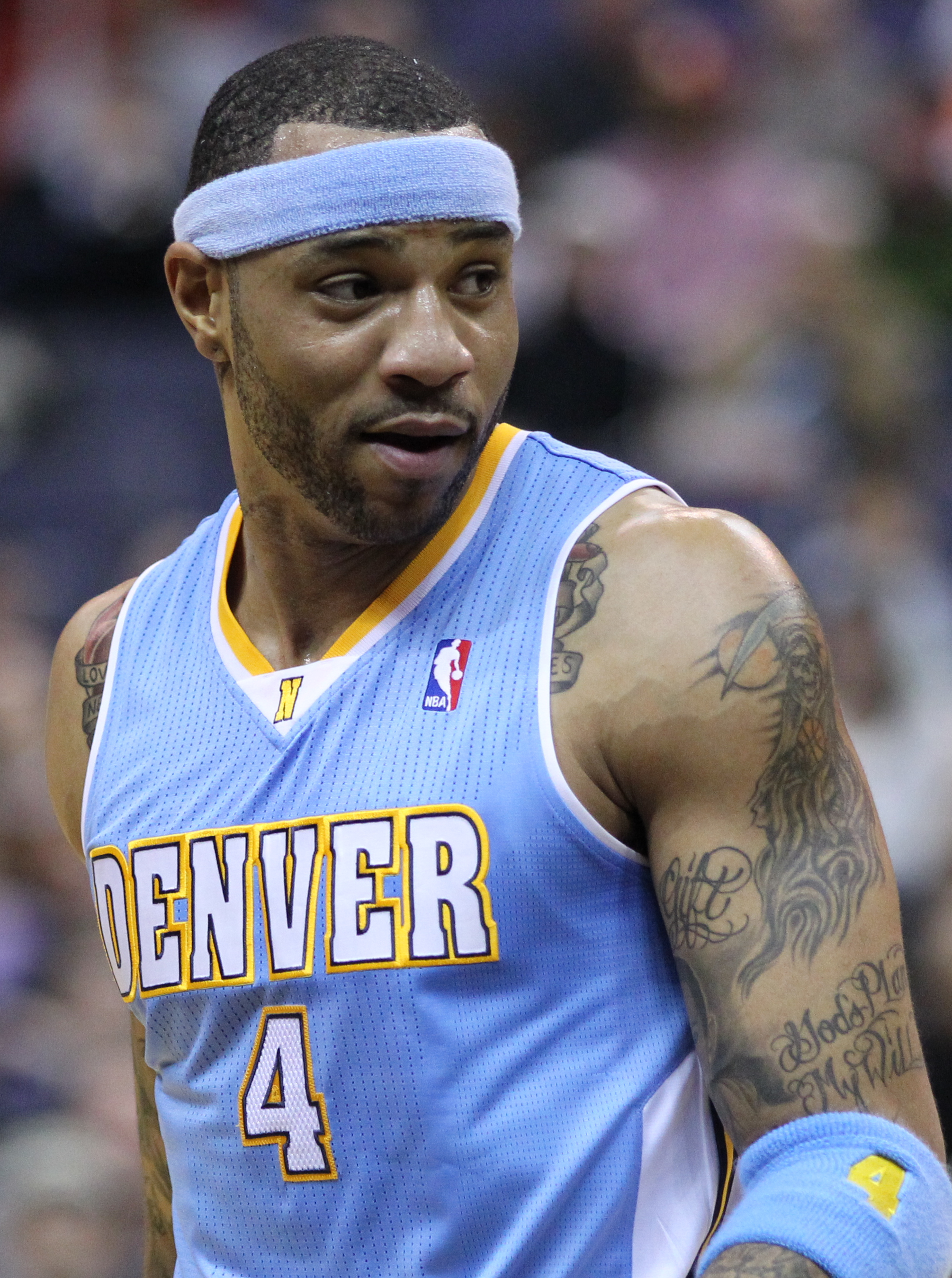 Washington Wizards v/s Denver Nuggets January 25, 2011